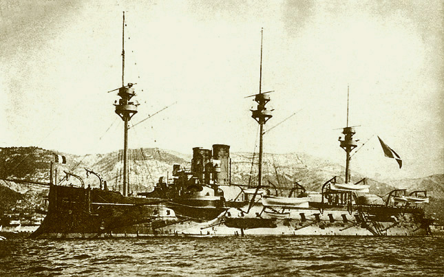 Admiral Duperre (French Battleship 1888-1909)